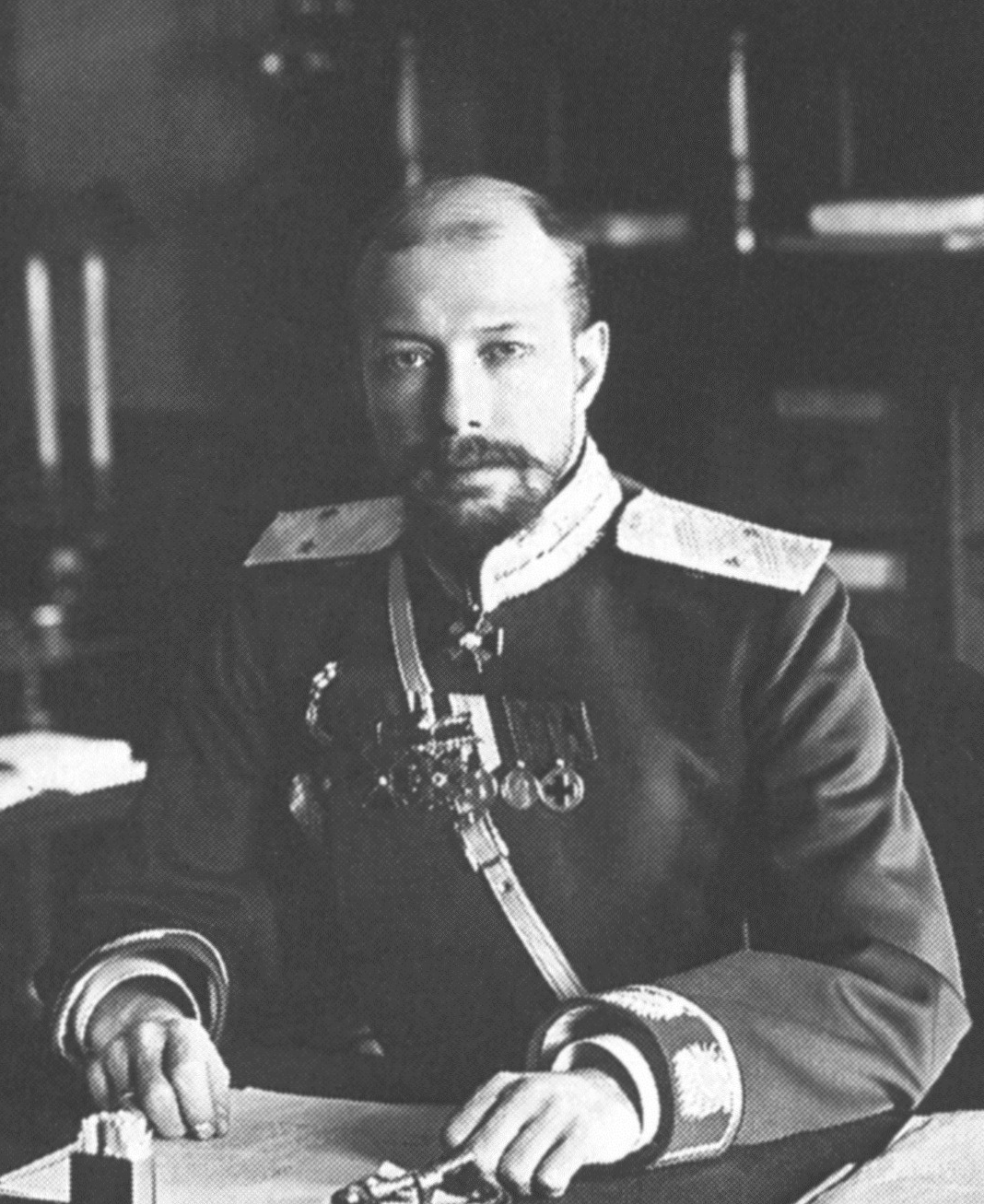 Daniil Vassilievich Drachevsky (1858-1918?), was a Russian Major General; St Petersburg's governor at the 1907-1914. 1908.